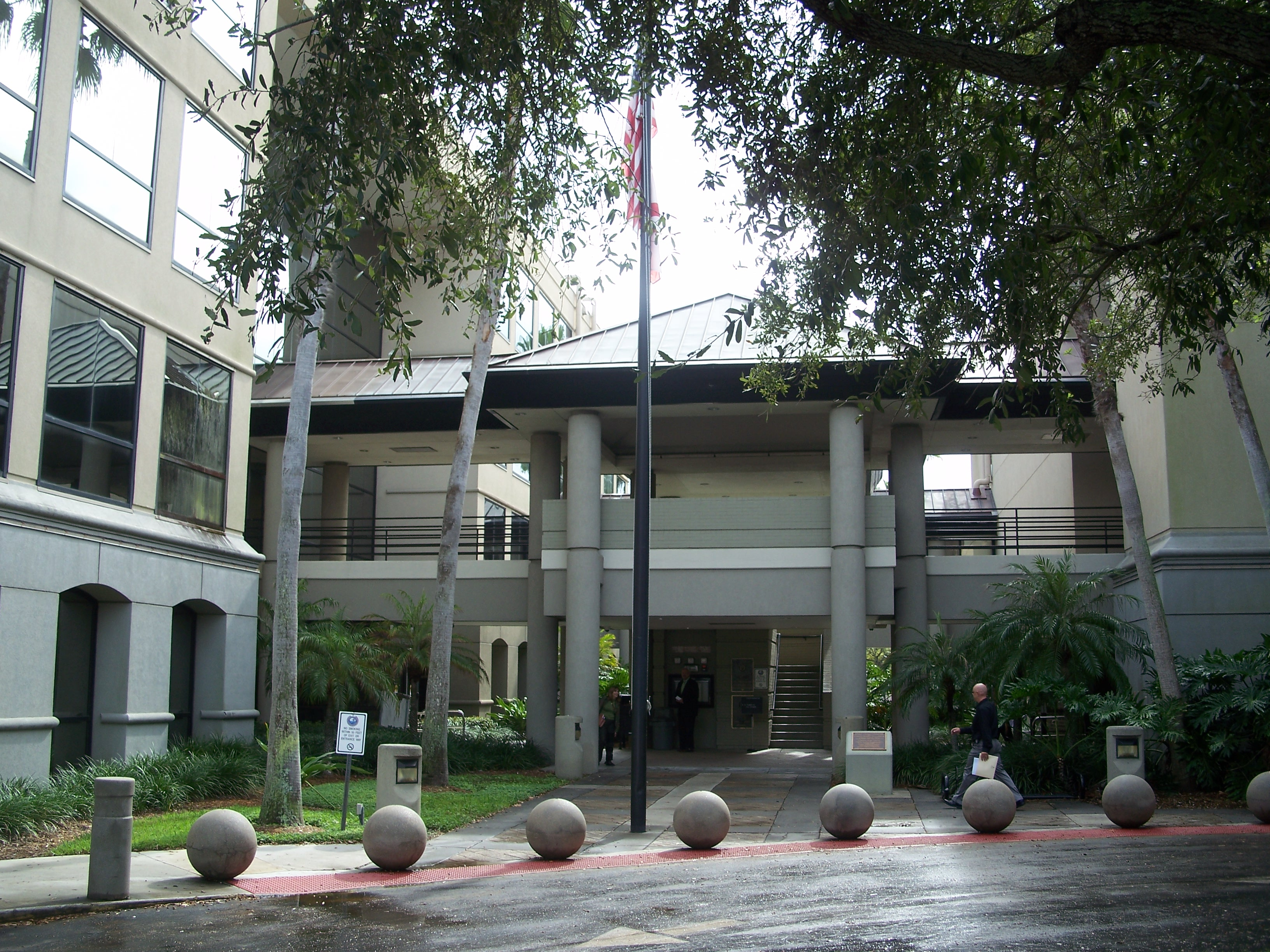 Stuart, Florida: Current courthouse